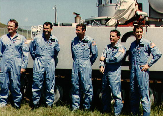 Crewmembers of STS 51-J pose near an amphibious personnel transporter at Launch Complex 39 while in Florida for their flight's countdown demonstration test. Left to right are Astronauts Karol J. Grabe, David C. Hilmers, Robert L. Stewart -- all of NASA; and USAF Maj. William A. Pailes, Department of Defense Payload specialist.